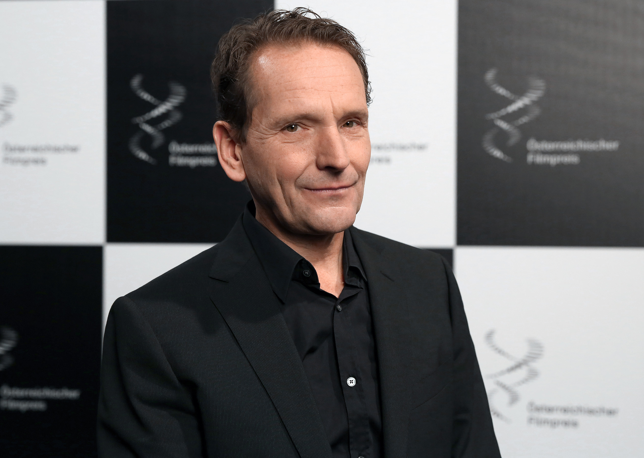 Erwin Wagenhofer, nominee as director of the best documentary (Alphabet), at the Austrian Film Awards 2014 (Grafenegg, Austria).